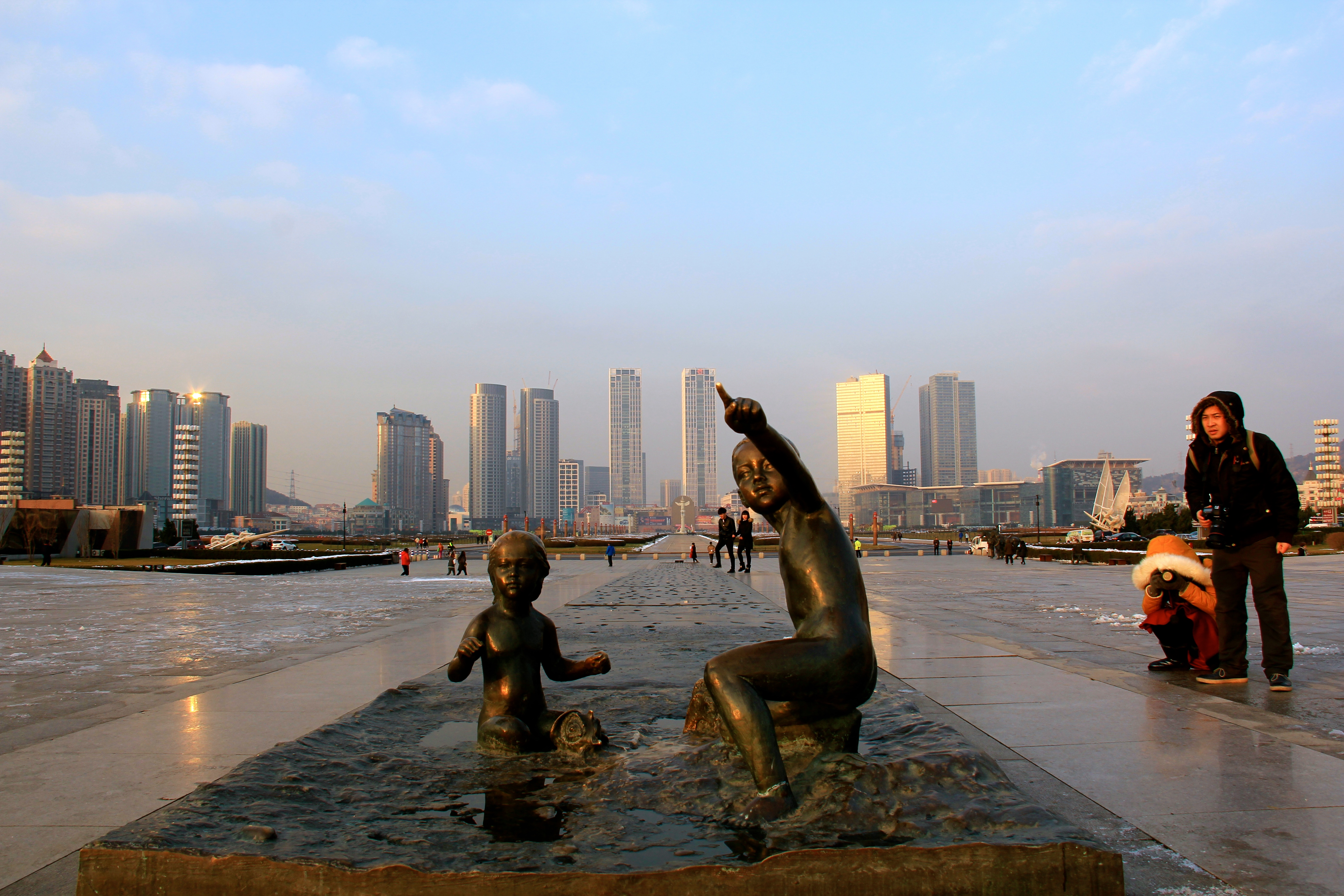 Xinghai Square, Dalian, China